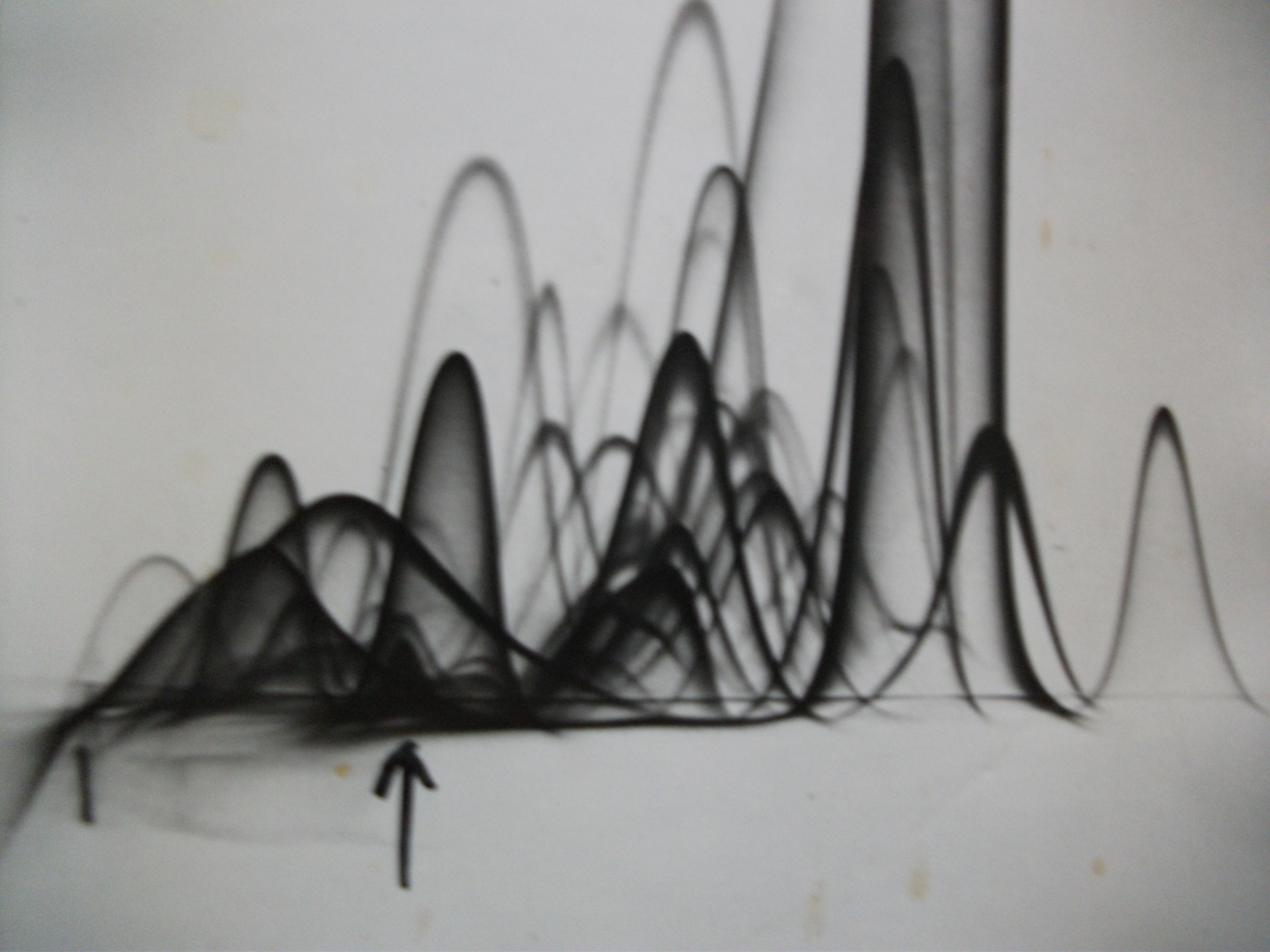 Crossed immunoelectrophoresis of 2 microLitre of normal human serum. The electrophoresis was performed in thin layers of agarose, the pictured gel is about 5x8 cm. The lower part is the first dimension gel without antibodies, where the serum was applied into the slot at the lower left. The upper part is the second dimension gel with Dako antibodies against human serum proteins. More than 50 major serum proteins can be named. The experiment was performed by dr. Thorkild C. Bøg-Hansen at University of Copenhagen a. 1980.